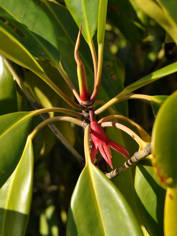 Bruguiera gymnorrhiza, leaves, stipule and flower. From Sangatta, East Kalimantan, Indonesia